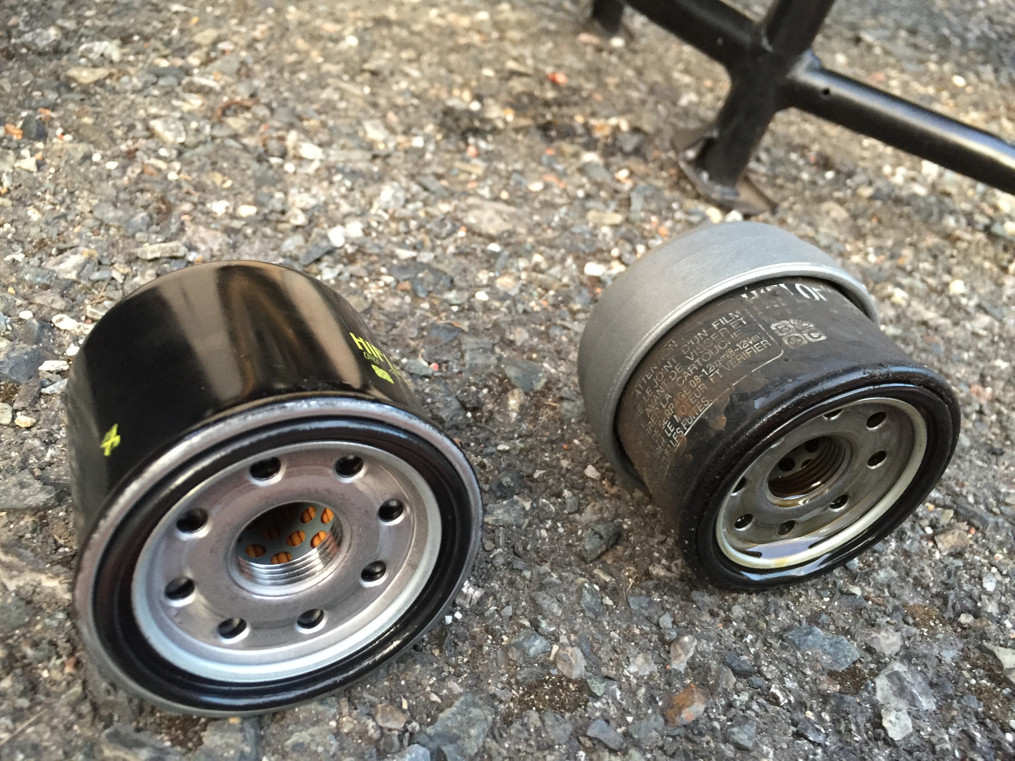 Comparison of new and old motorcycle oil filters, both Hiflo Filtro, on left new filter, on right used filter after several thousands KM. Filter for Yamaha XJ6 Diversion.